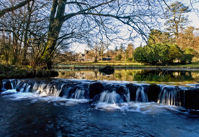 The Burn at Craighlaw The burn which feeds Craighlaw Loch has been dammed to provide a series of ponds.